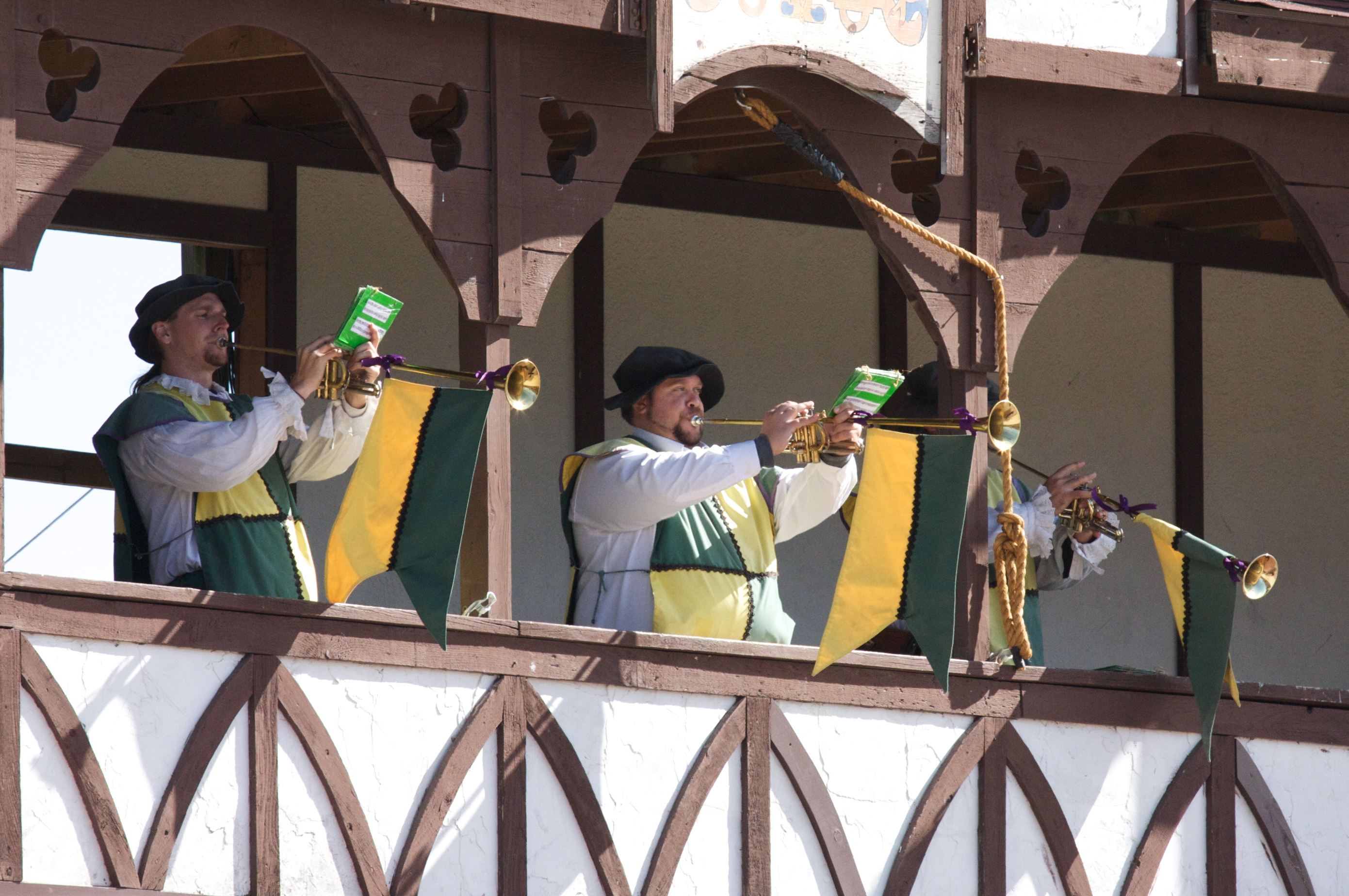 Trumpeters playing a fanfare